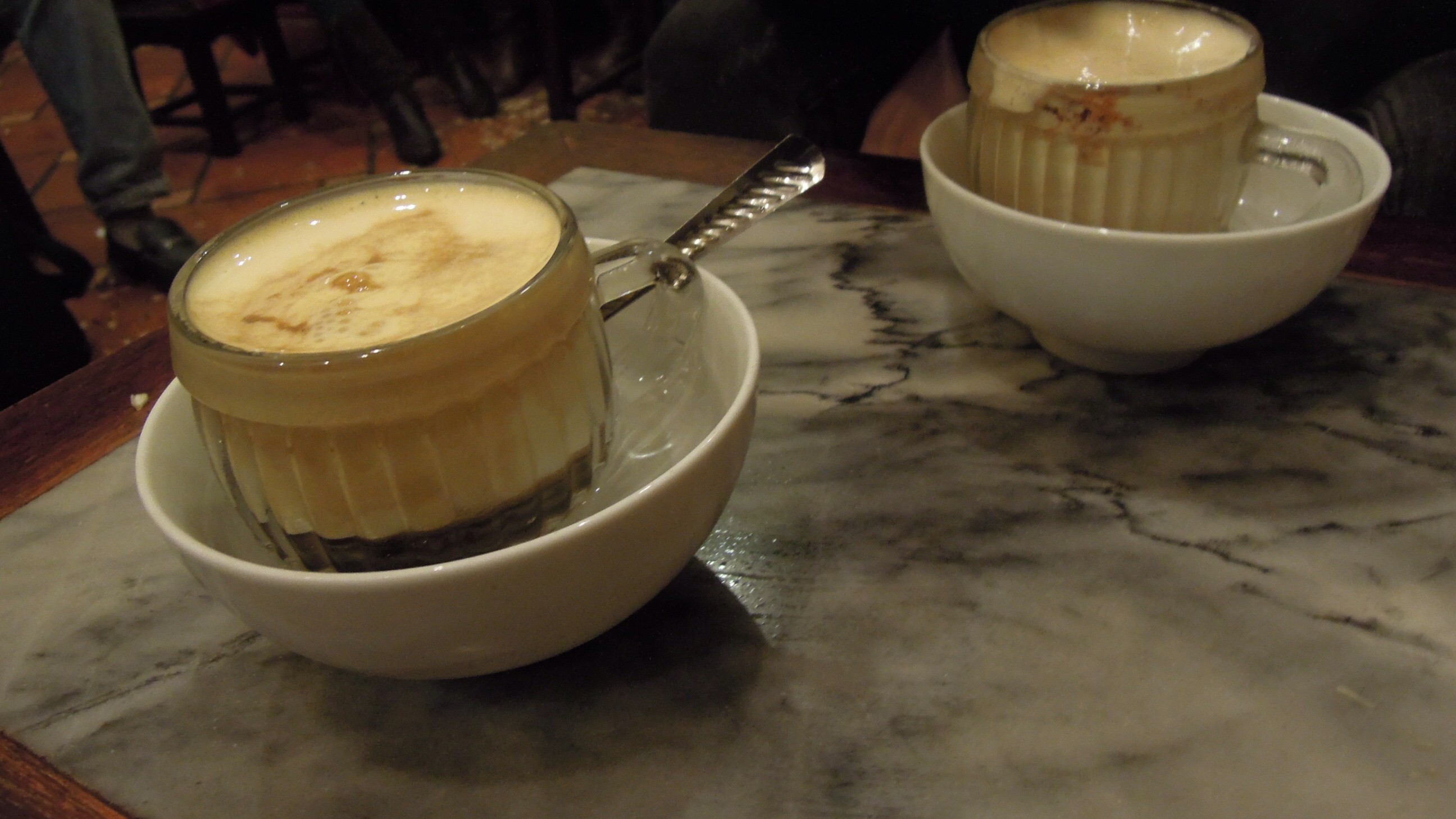 Egg CoffeeTiếng Việt: Cà Phê Trứng